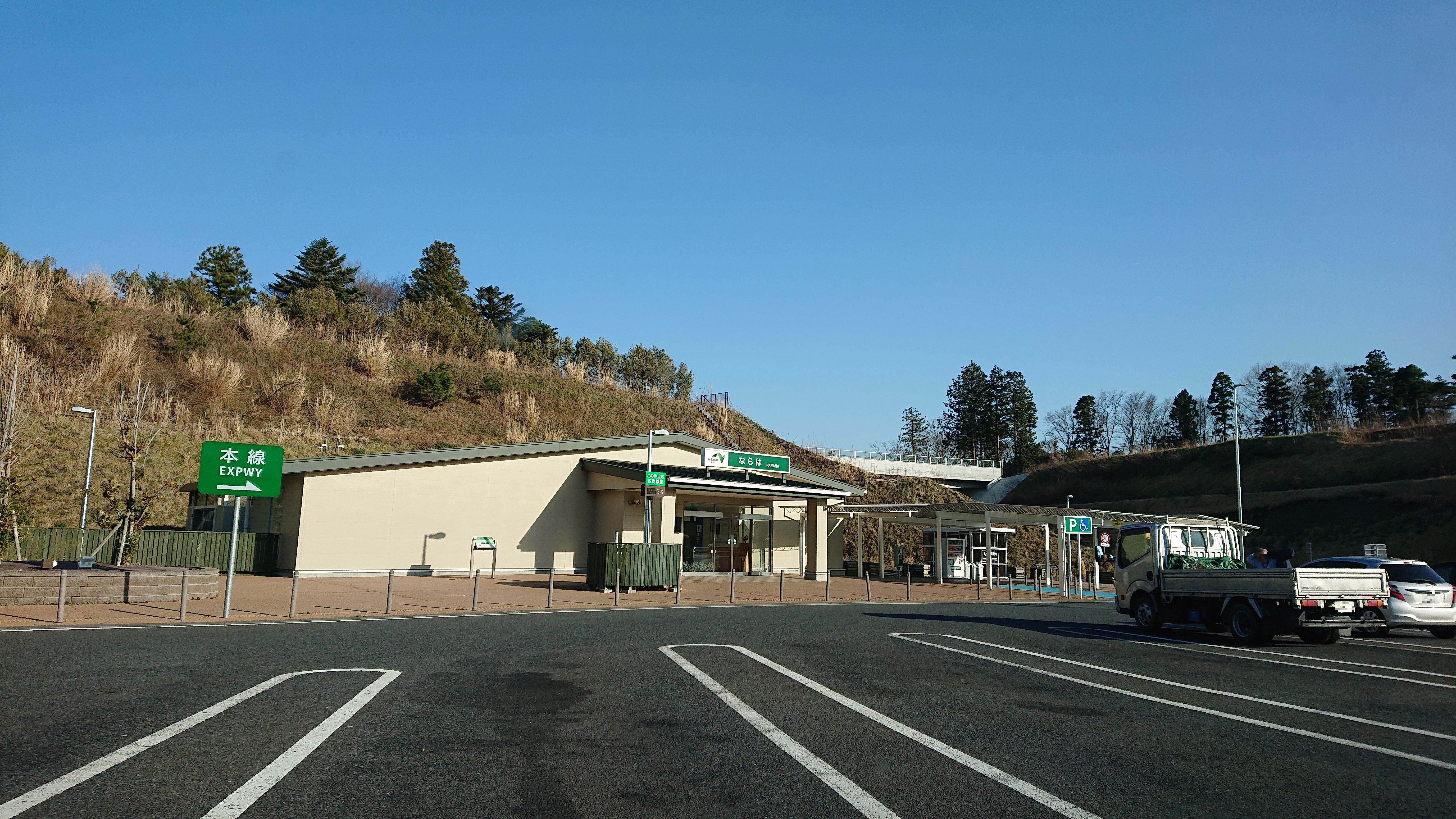 This is Naraha Parking Area on Joban Expressway in Naraha, Fukushima, Japan.